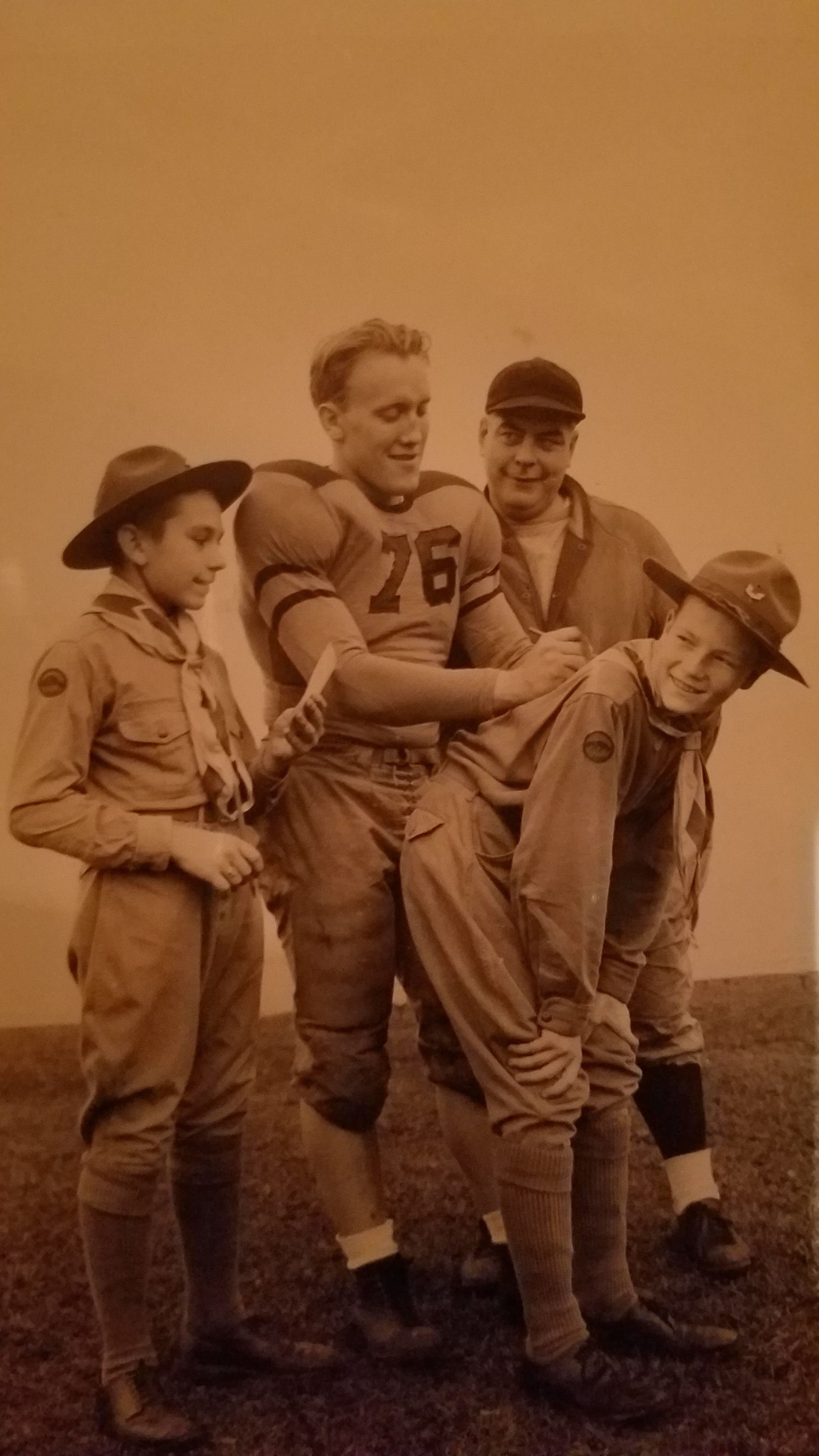 Al signing autographs for young boy scouts.